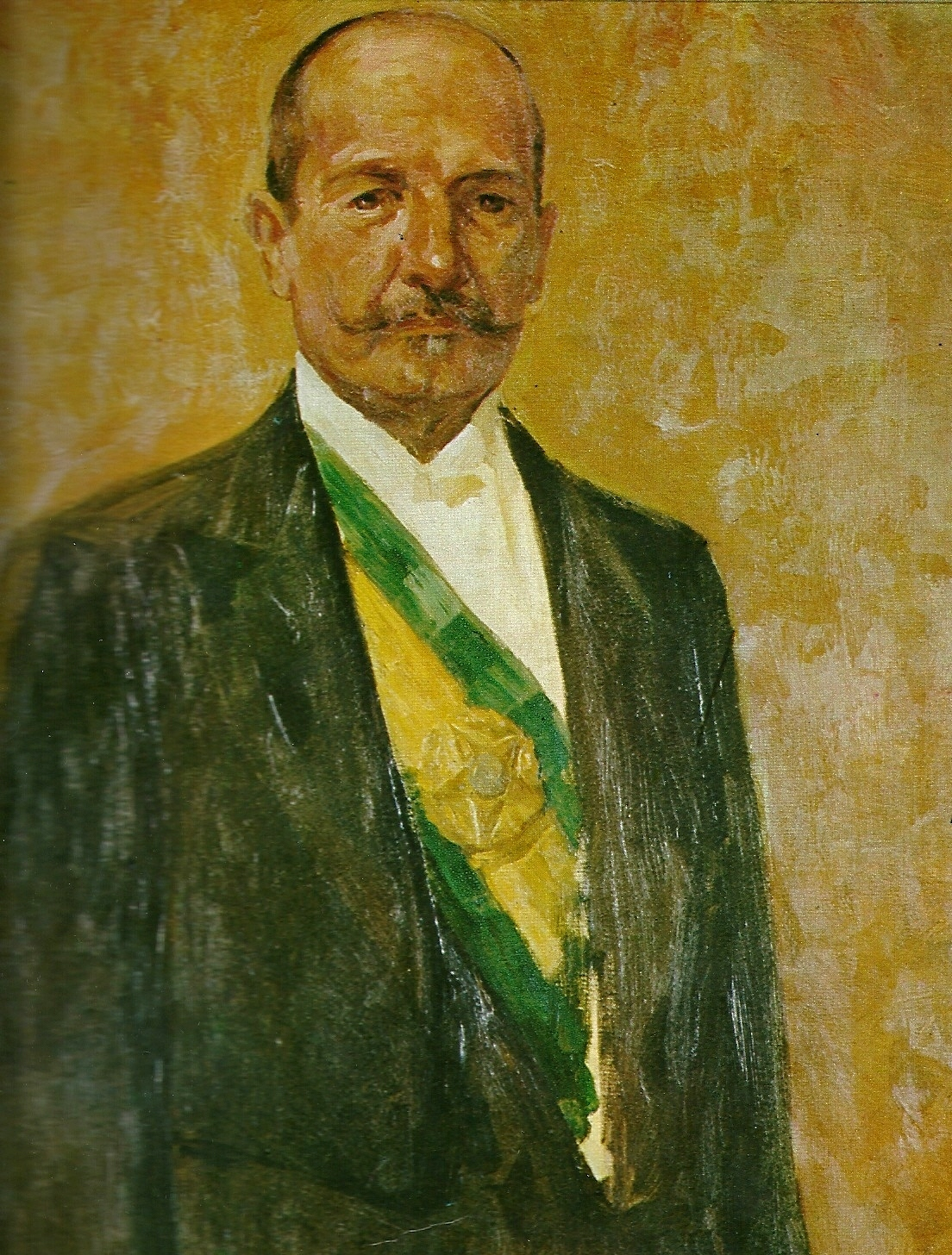 Brazilian President Hermes da Fonseca